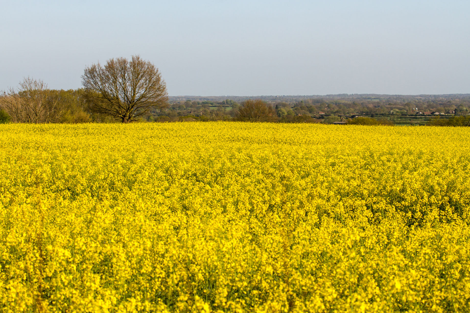 A sea of yellow rapeseed flowers